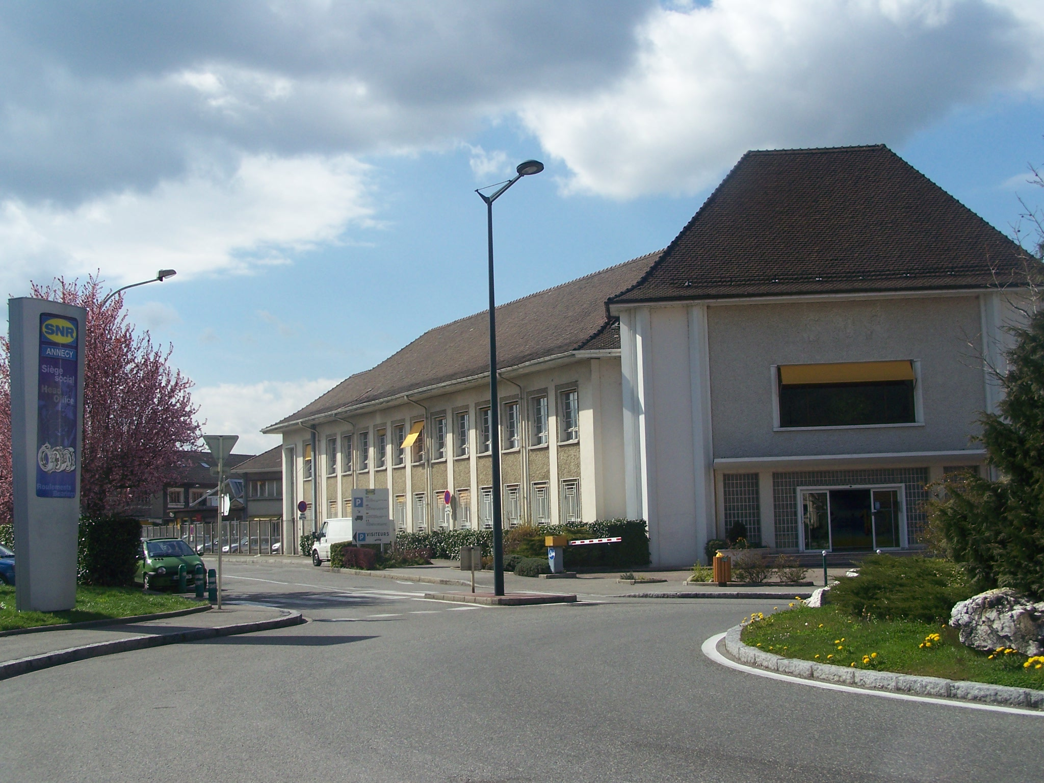 The company of NTN-SNR Roulements's head-office, in Annecy, Haute-Savoie, France.